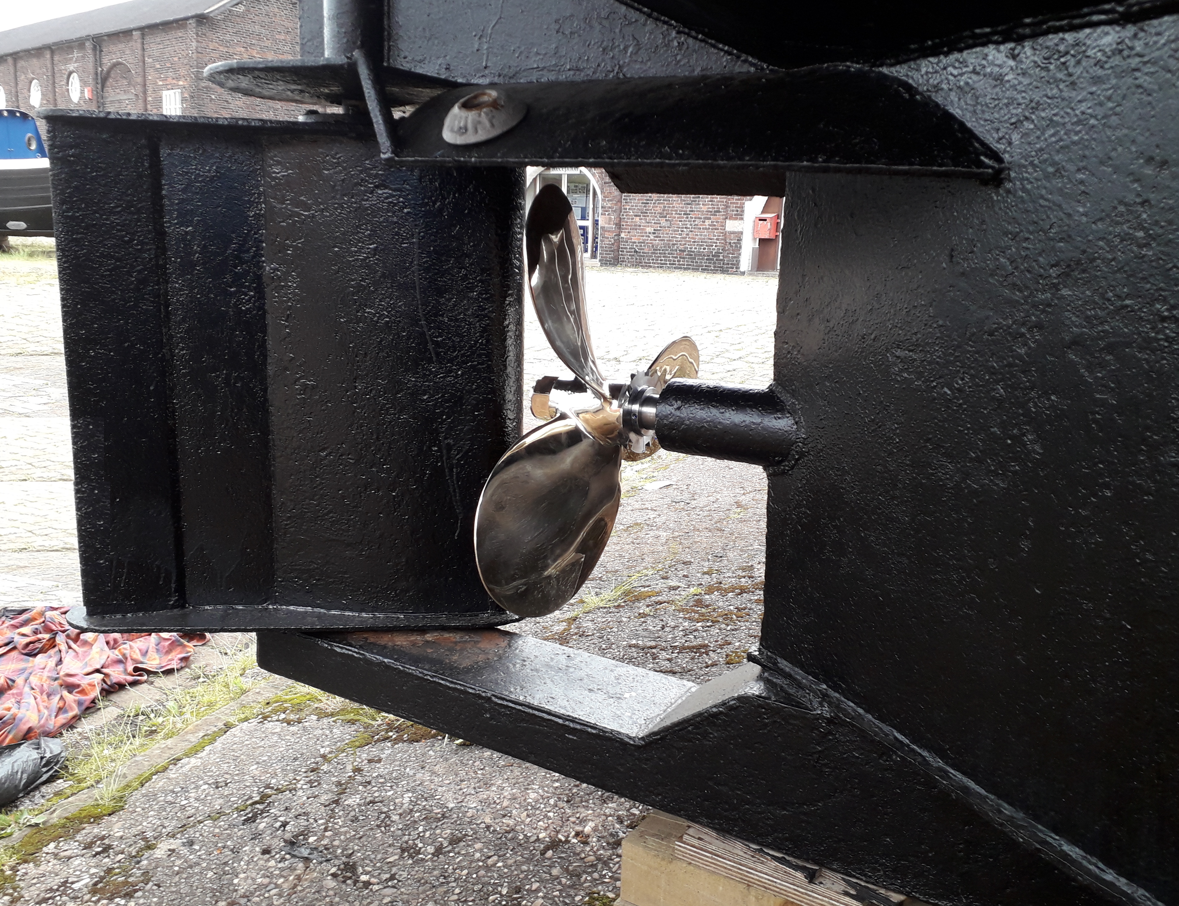 Newly polished R-H 25 x 10" propeller on English river barge "Cordelia"